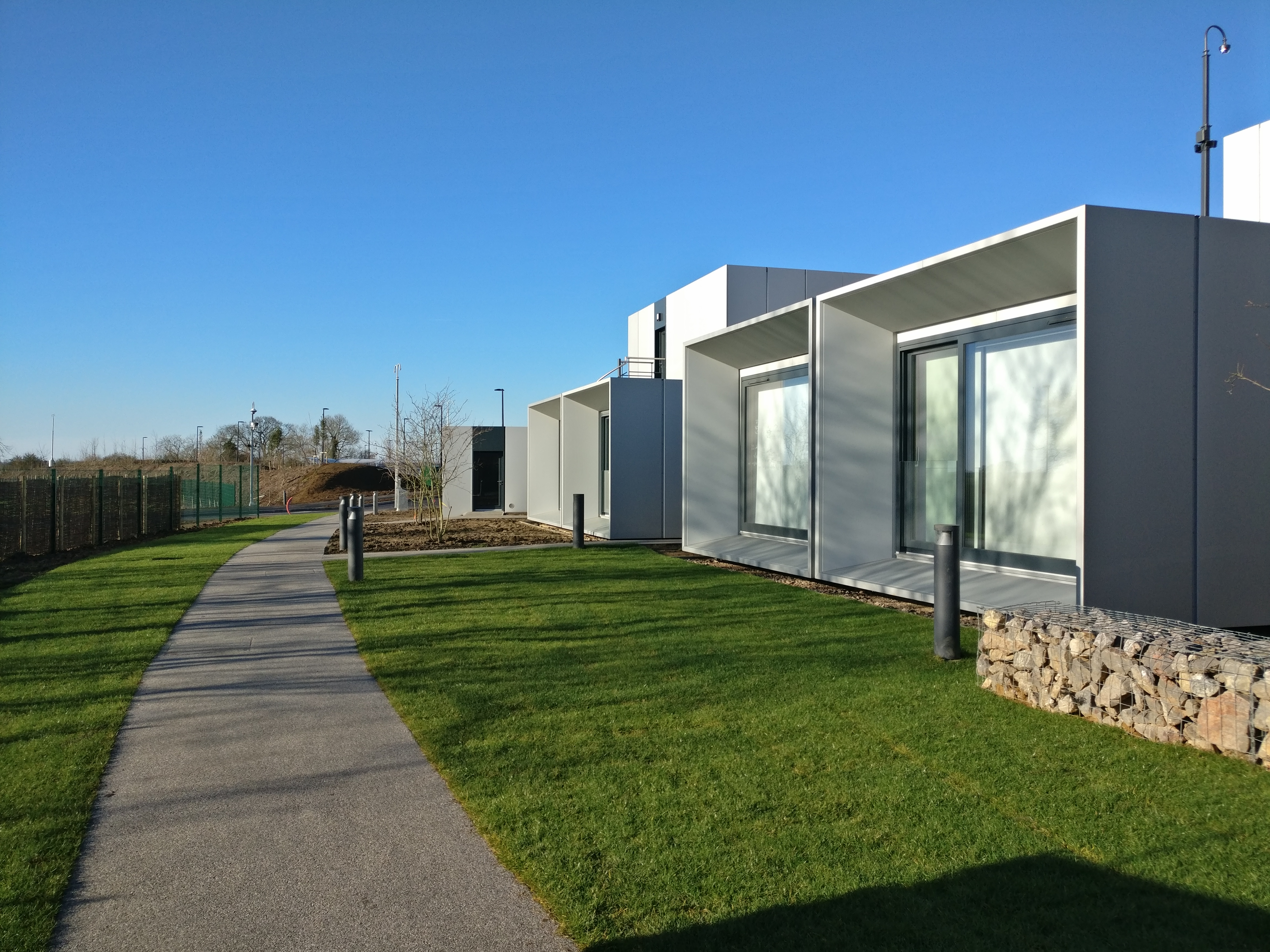 Accommodation pods designed by Wilkinson Eyre for 1st year students studying at the Dyson Institute of Engineering and Technology